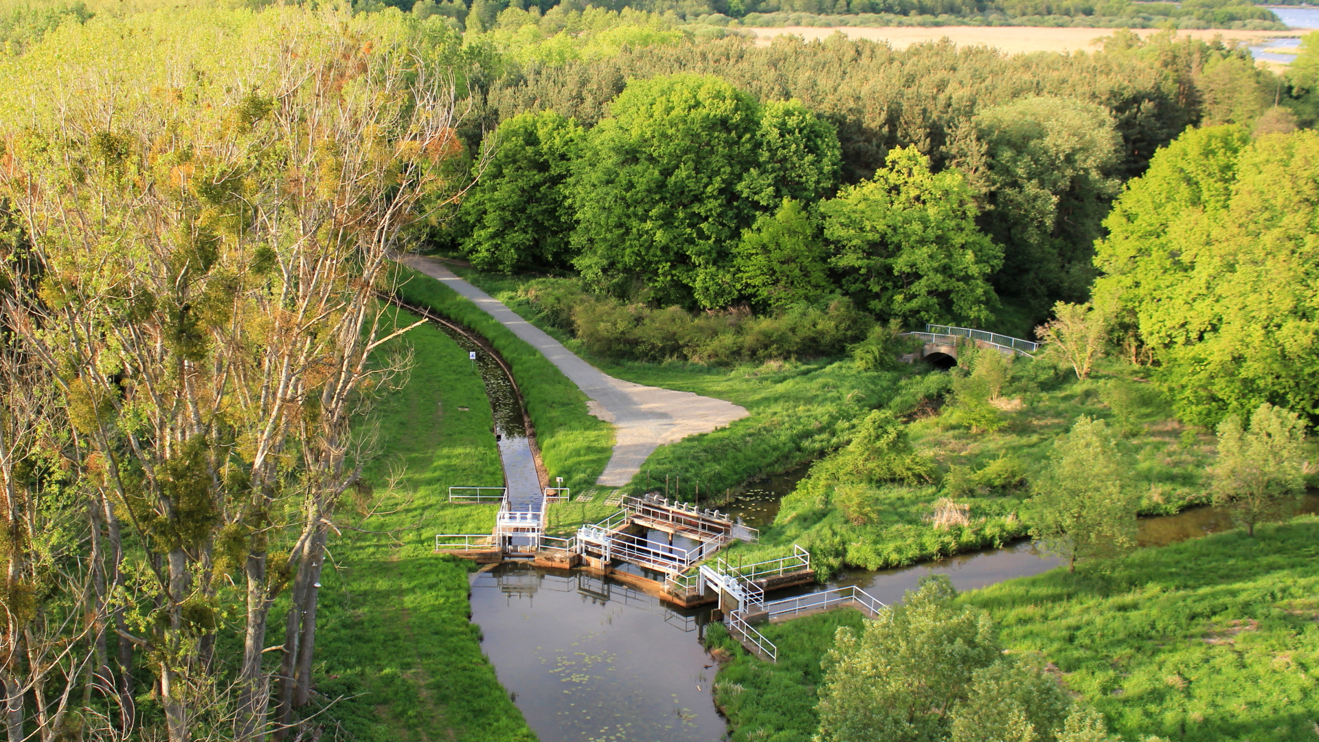 KAP (Kite Aerial Photography)